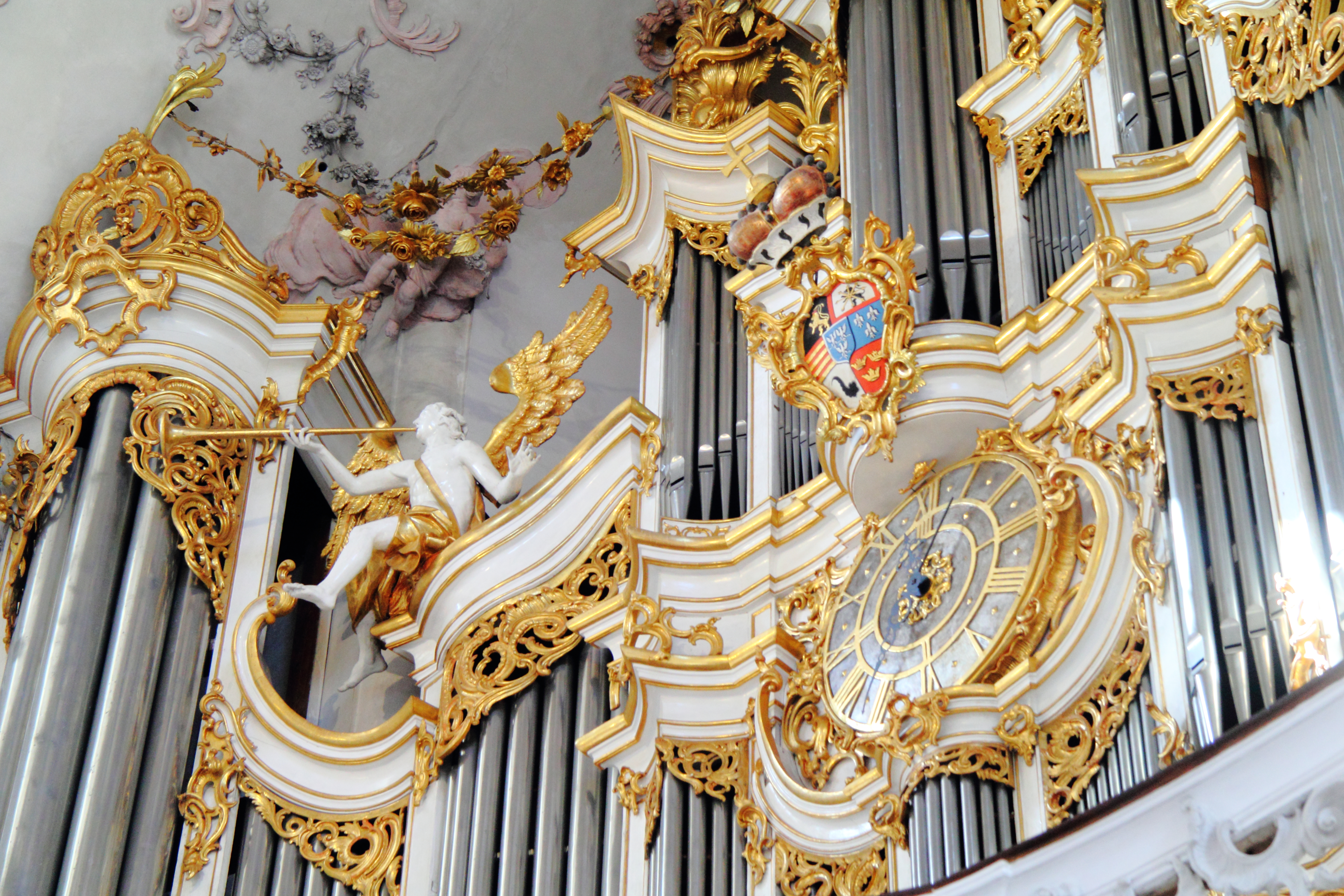 Amorbach Abbey, Odenwald forest, Bavaria/Germany, abbey church